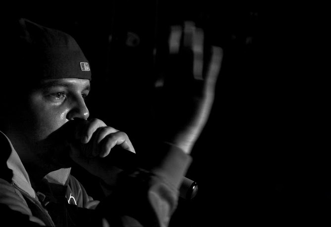 Polish rapper Piotr "Donguralesko" Górny